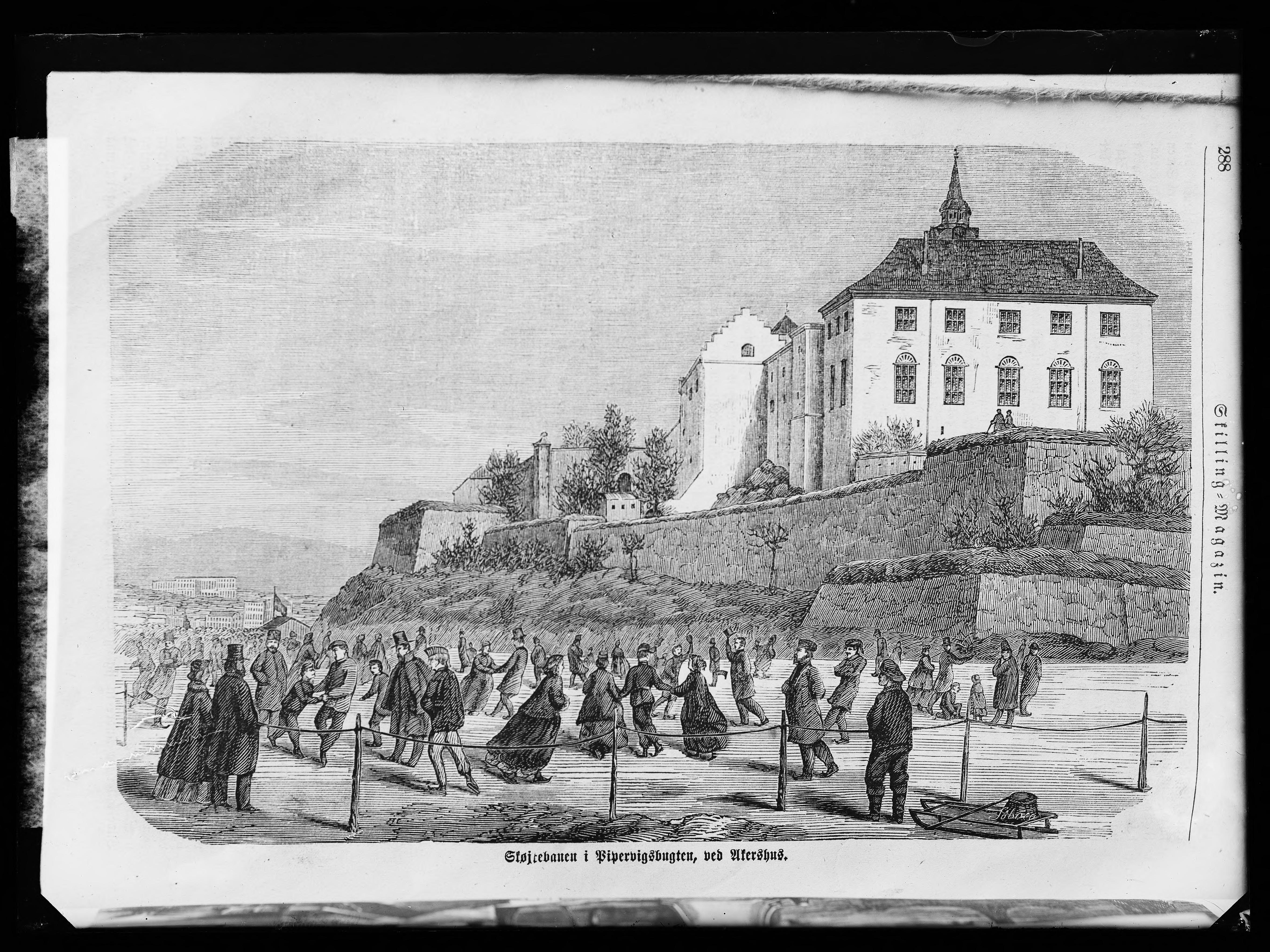 Xylograph by Andreas Ludvig Søborg from 1867.